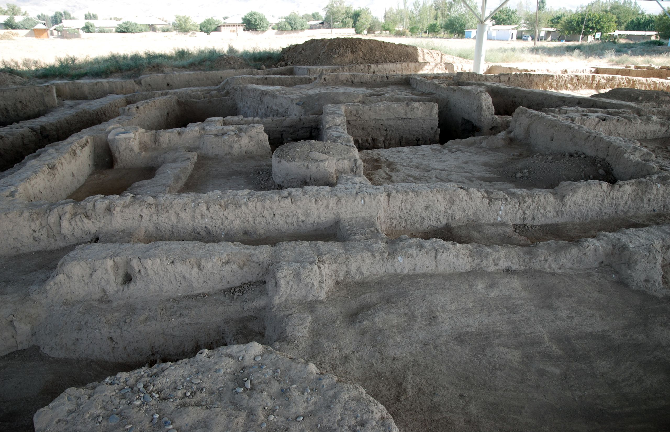 Sarazm, Sughd province, area XII